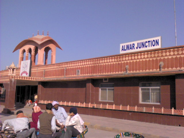 Rail Station Shed, Alwar, Rajasthan